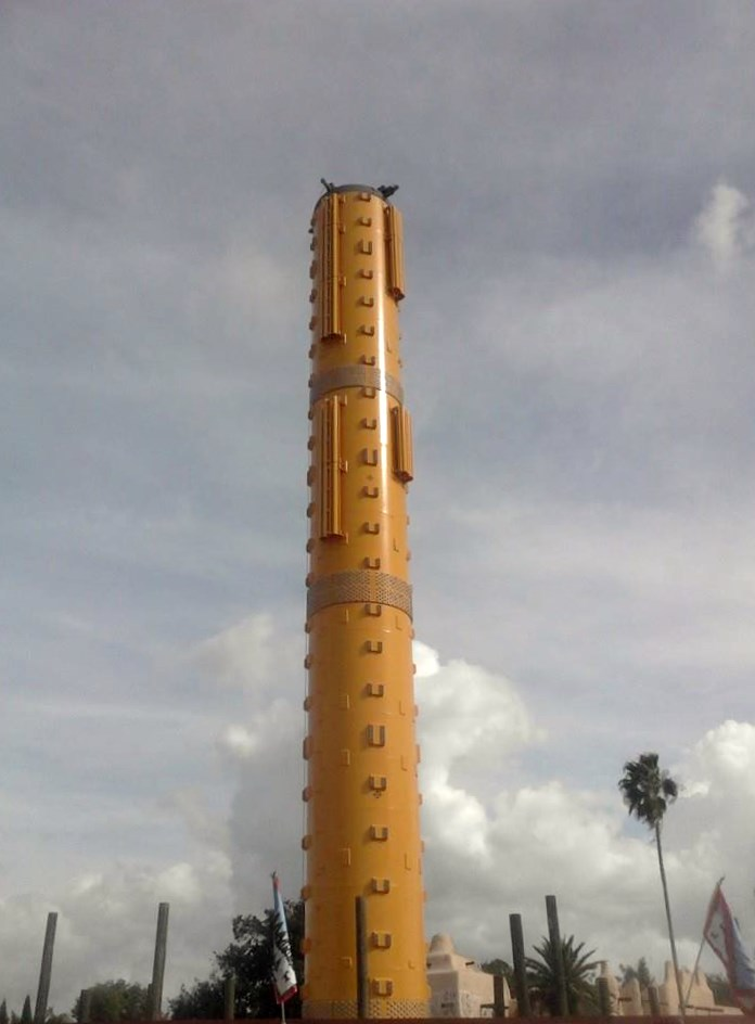 Close up view of Current progress of Falcon's Fury. Current height is around 100 + feet.